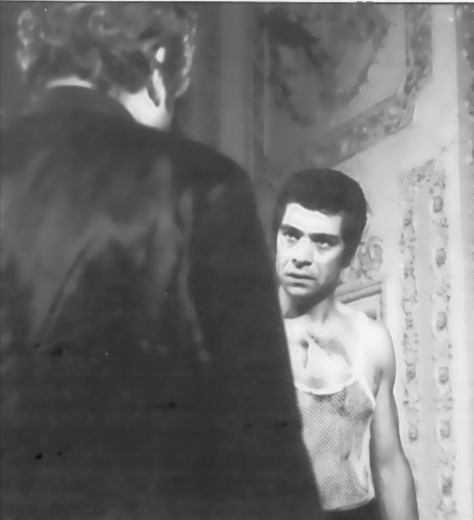 Behrouz Vossoughi in Qeysar, Massoud Kimiayi, 1969 (screenshot)